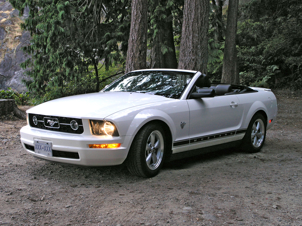 my 2009 Mustang Convt. Summer 2009